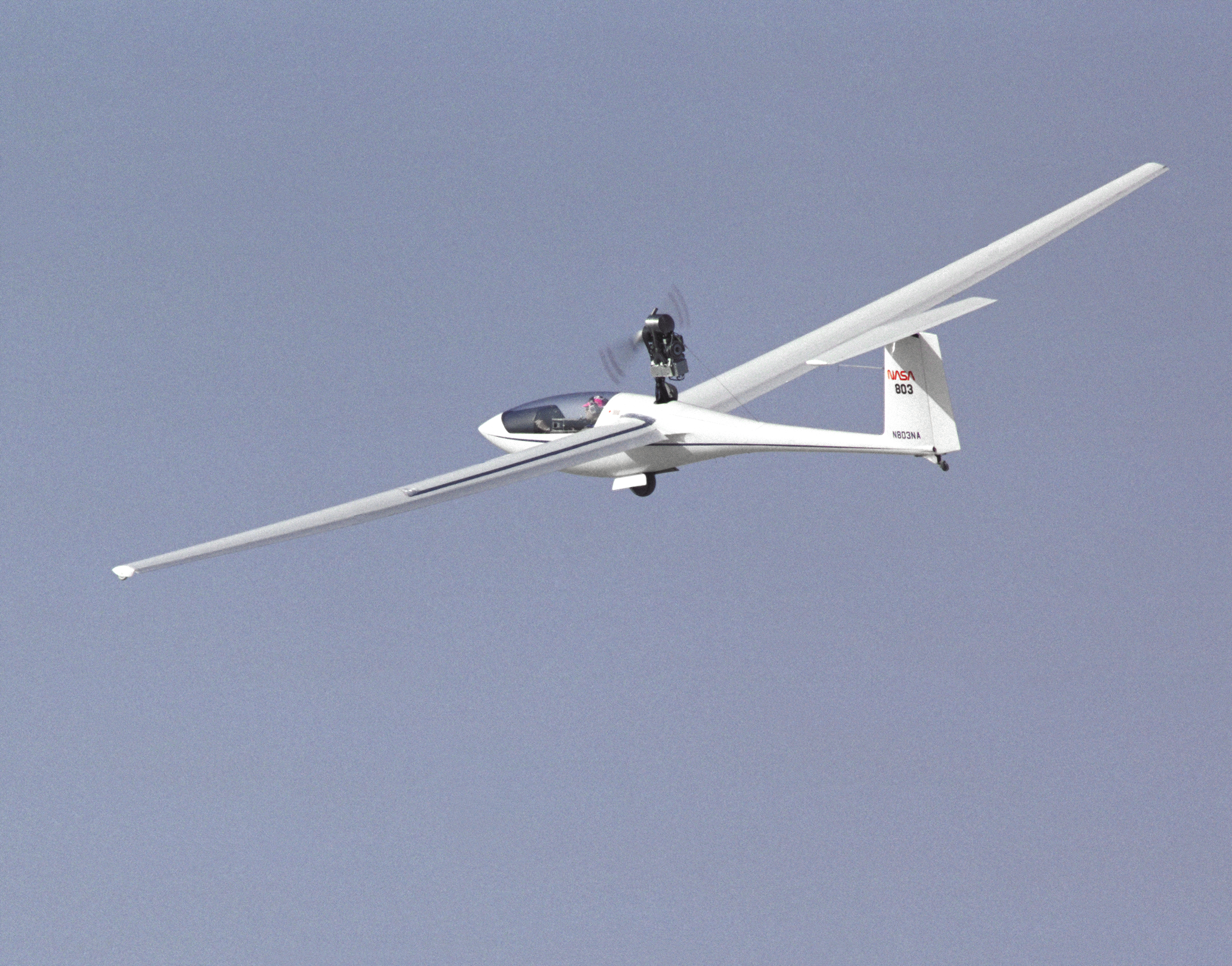 PIK-20E, finnish glider. Used by NASA Dryden Flight Research Centre 1981-1991. Sailplane Research Aircraft - airflow over lifting surfaces